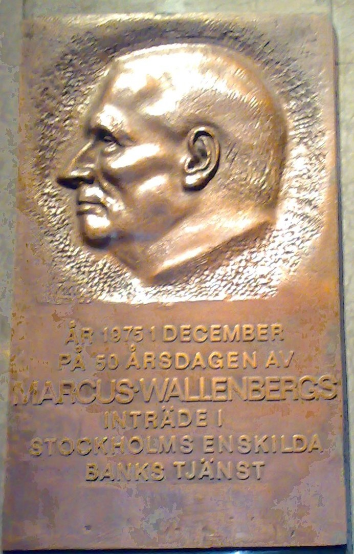 Marcus Wallenberg junior (1899–1982), swedish indutrial; memorial in the entrance hall of SEB ABs headquarter, Stockholm